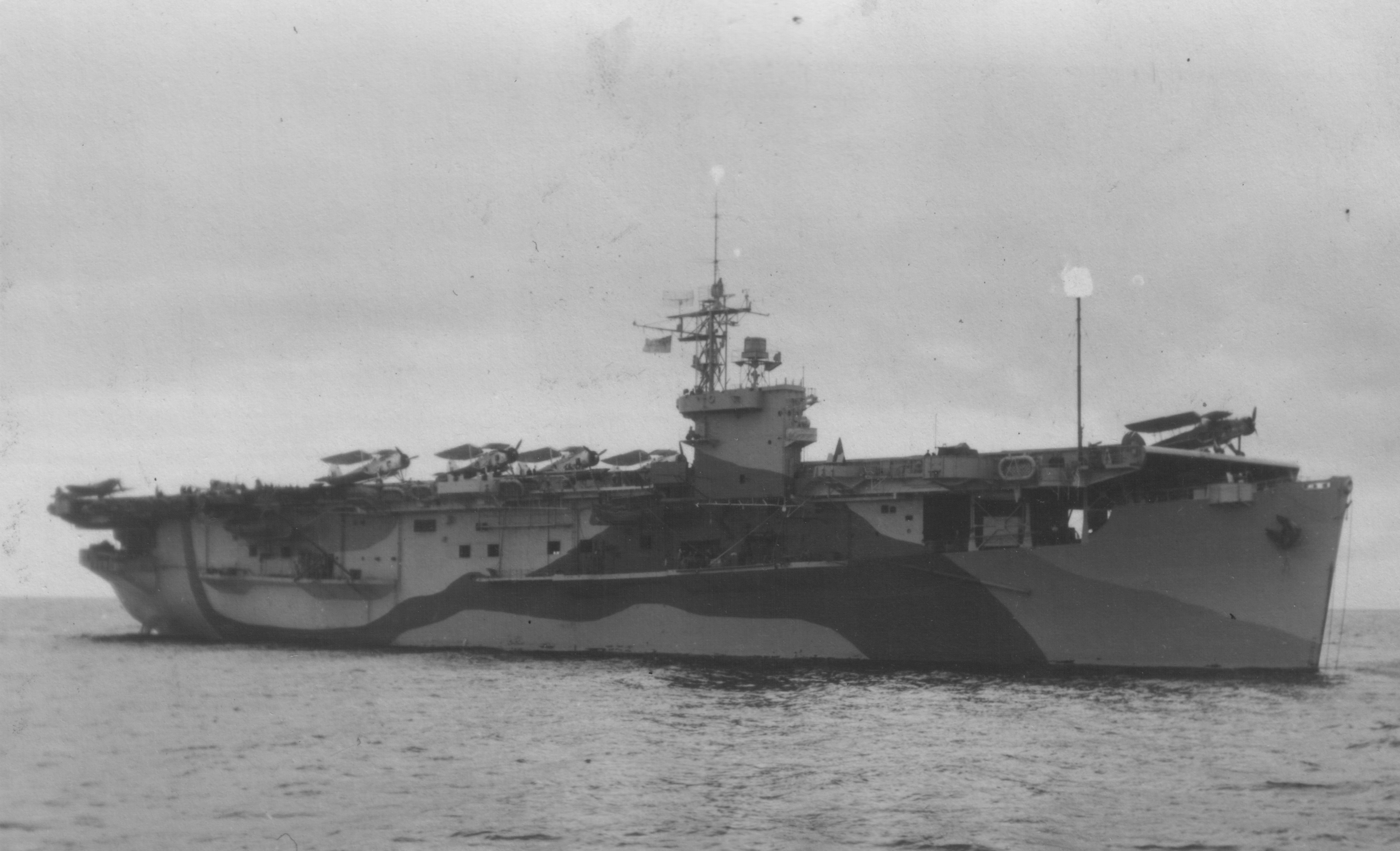 HMS Tracker (D24). Stamped on rear is : H.M.S. "TRACKER" NOT TO BE SENT THROUGH THE POST PHOTOGRAPHIC SECTION